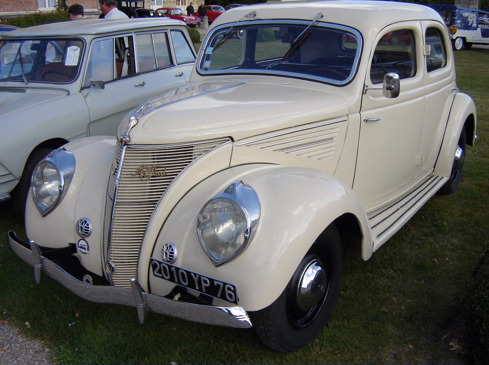 1936 Matford Alsace 72